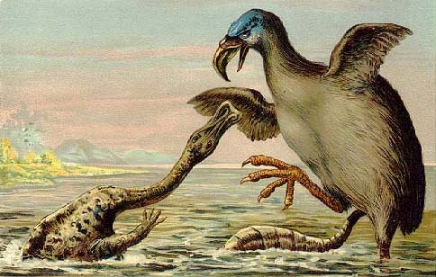 Highly anachronistic restoration of Brontornis attacked by a hadrosaur.